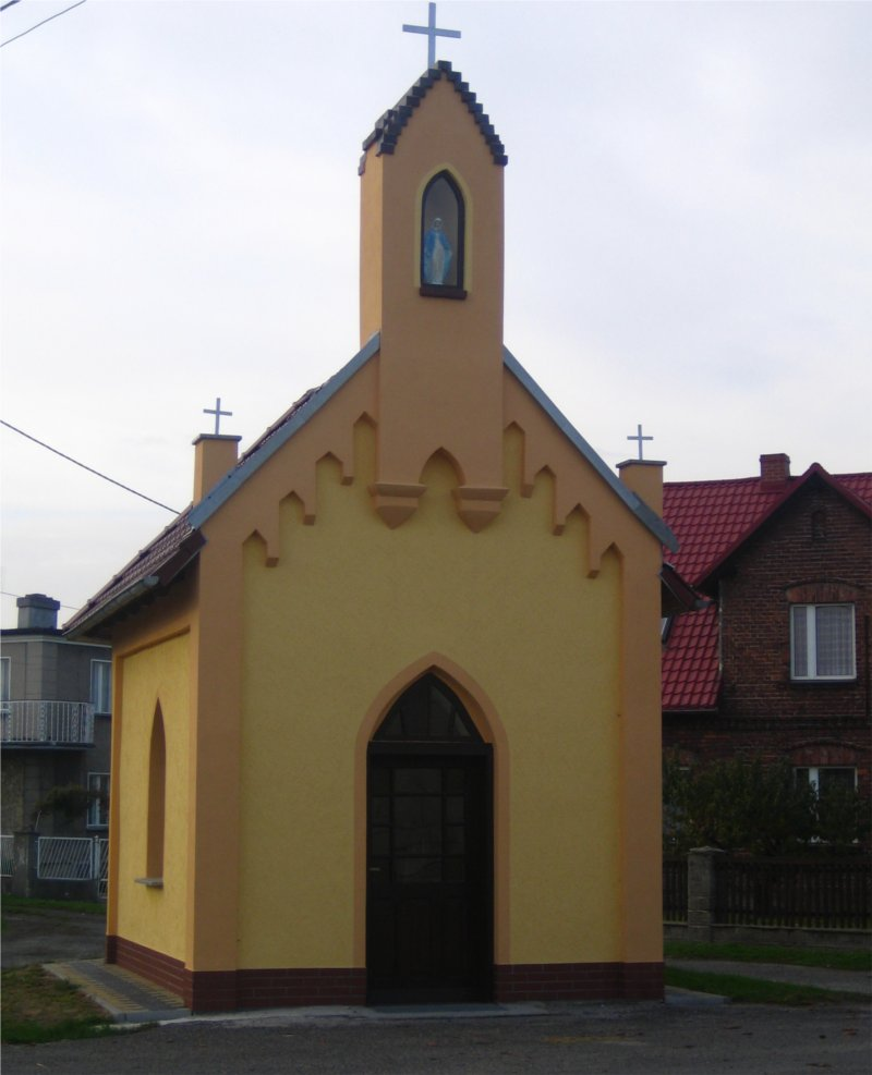 Chapel in Cisek, Silesia, PL